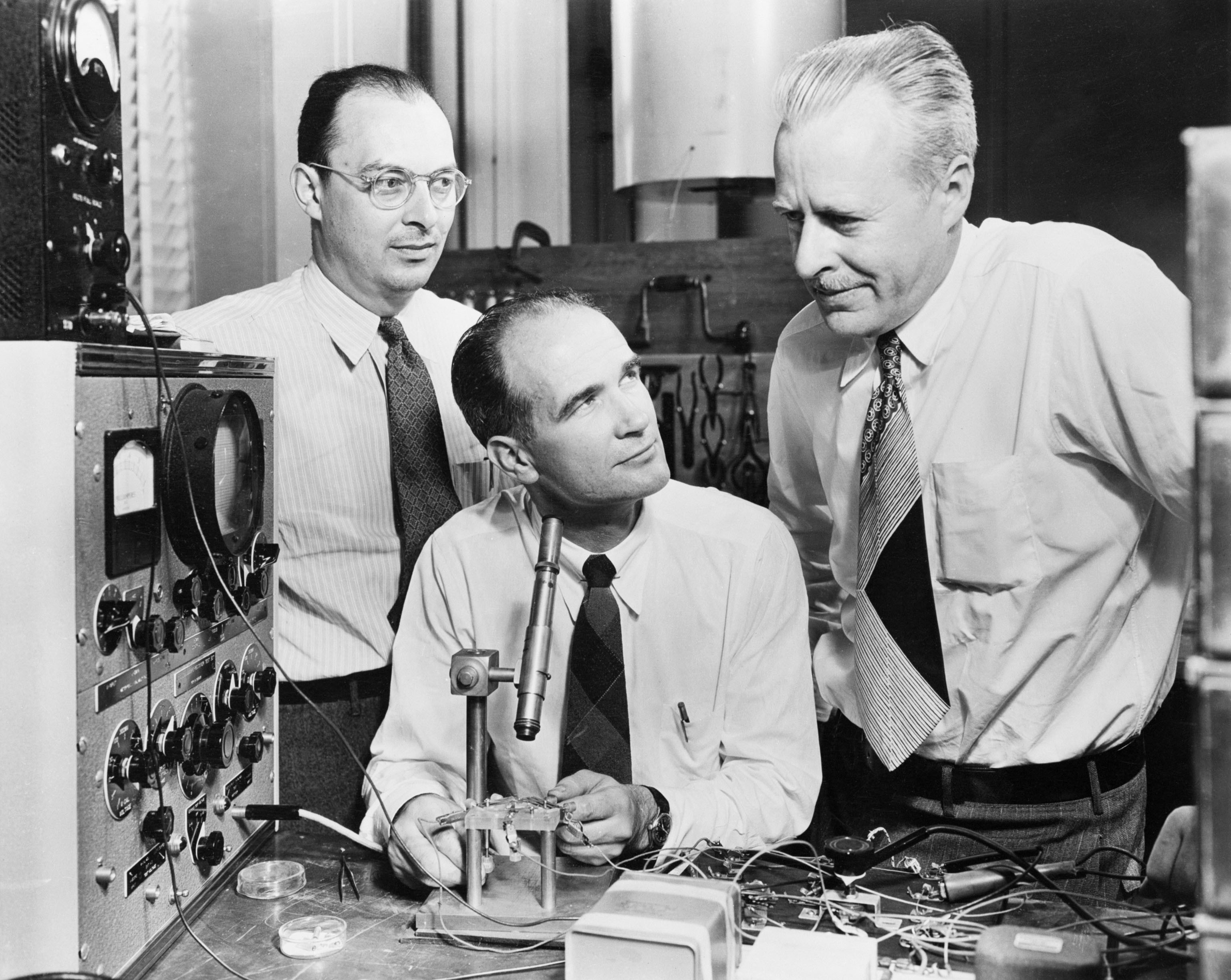 Photo of (from left) John Bardeen, William Shockley and Walter Brattain, the inventors of the transistor, 1948. This is one of a series of publicity photos produced by Bell Labs around the time of the public announcement of the invention (June 30, 1948). Although Shockley was not involved in the invention, and has never been listed on patent applications, Bell Labs decided that Shockley must appear on all publicity photos along with Bardeen and Brattain.